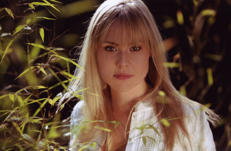 Kristin Booth in a publicity shoot in 2008.